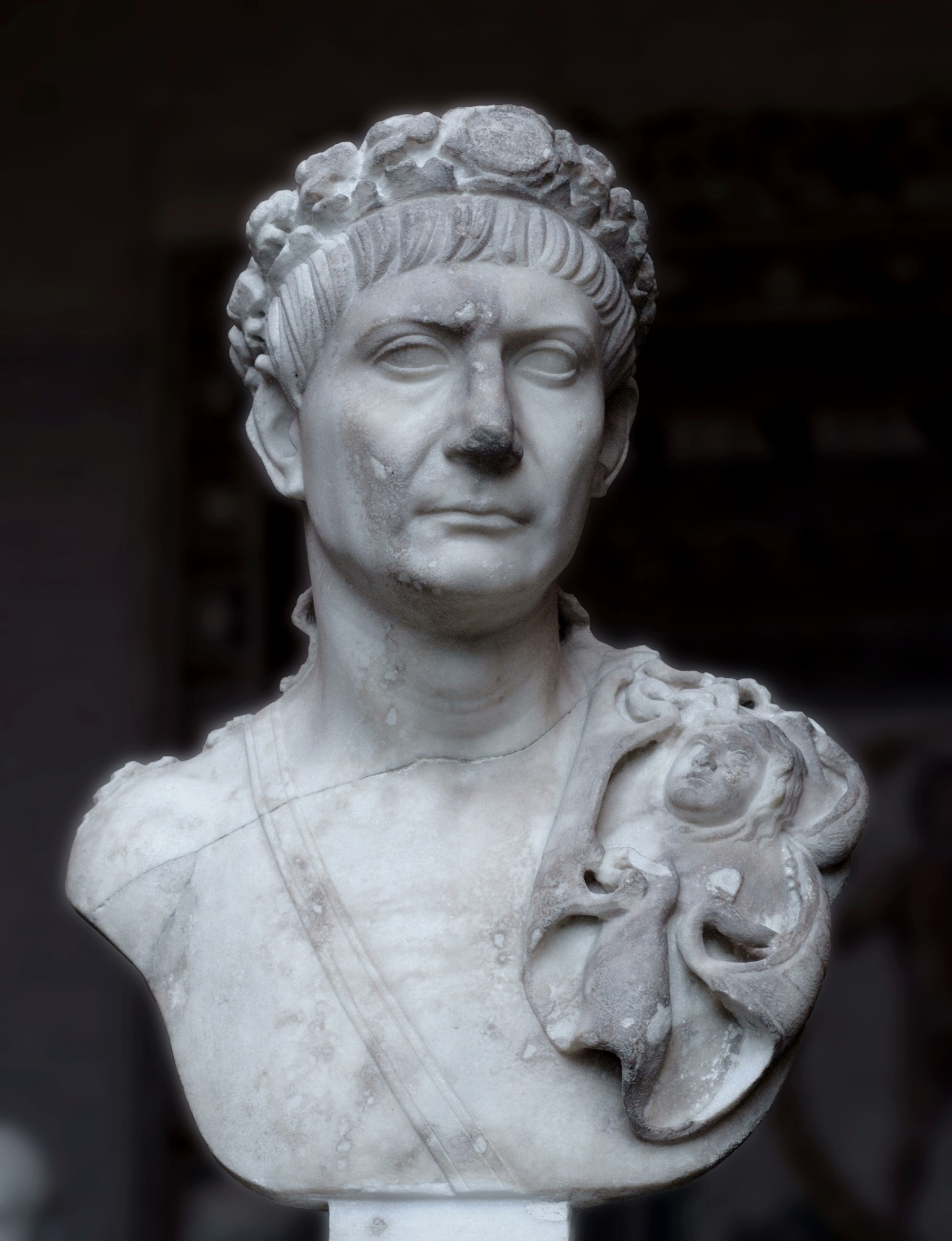 Bust of Trajan (reign 98–117 CE), with the Civic Crown, a sword belt and the aegis (attribut of Jupiter and symbol of divine power).